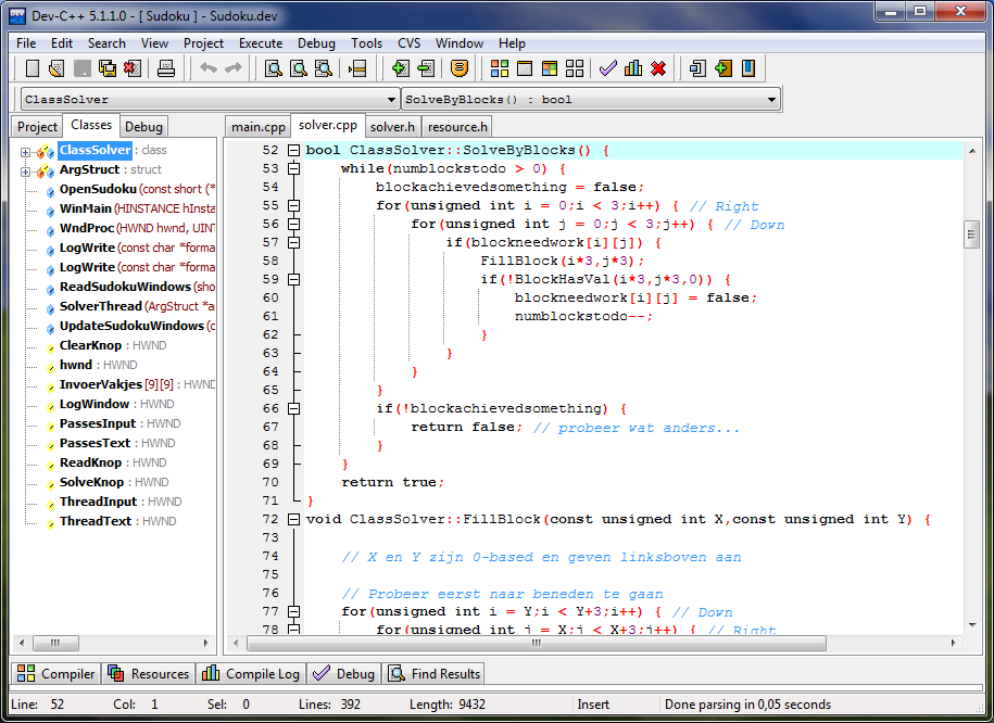 Dev-C++ IDE